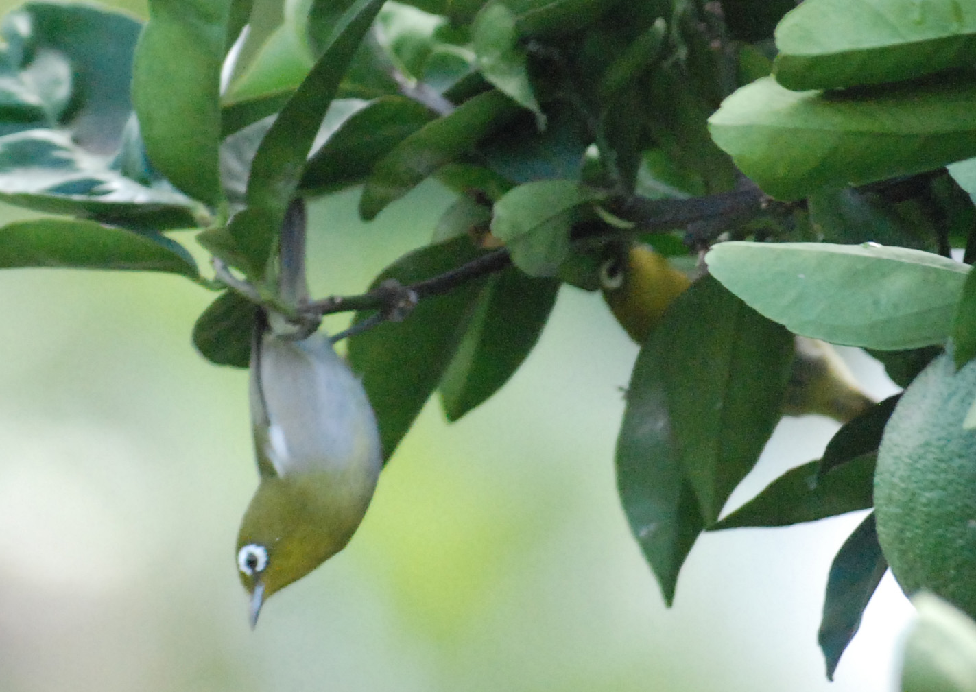 Zosterops xanthochroa : Green-backed White-eye, upside down, looking for food